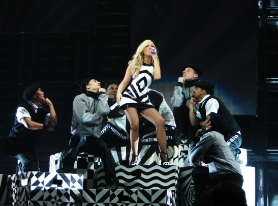 Emma Bunton performing "Maybe" at The Return of the Spice Girls Tour, in 2007.